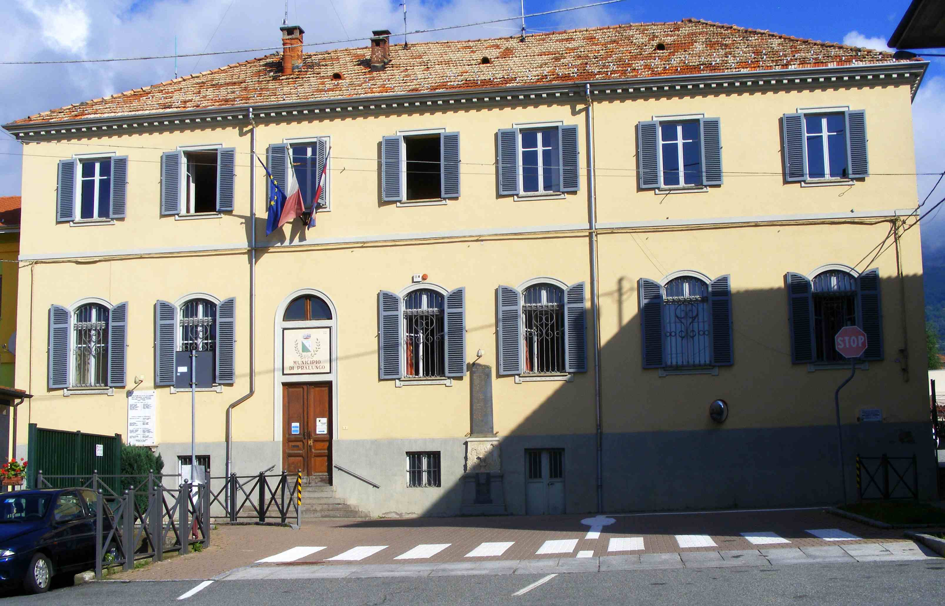 Pralungo (BI, Italy): town hall